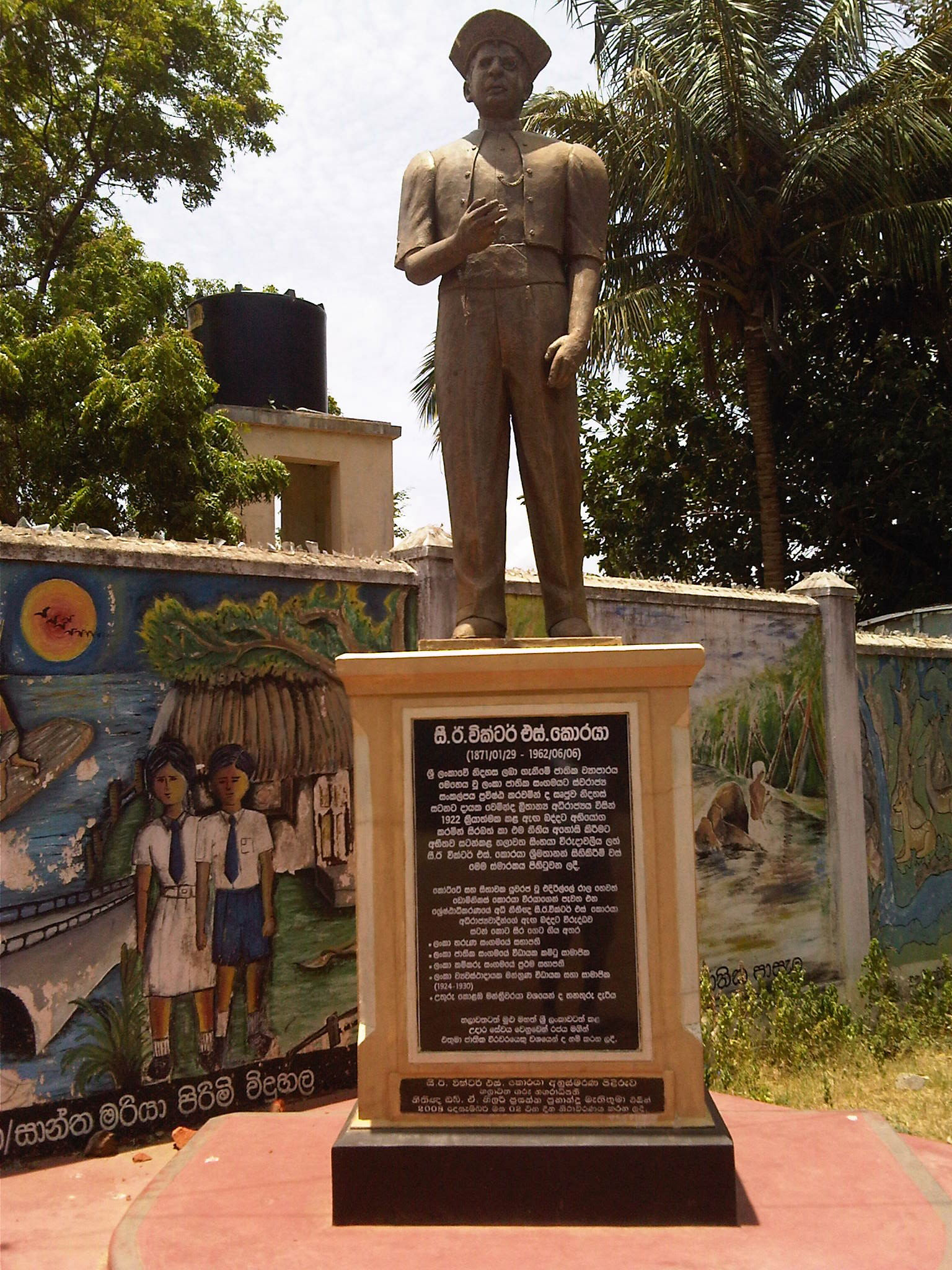 The statue of Victor Corea, a national hero of Sri Lanka who fought hard for the independence of the island. The statue is in the town of Chilaw on the west coast of Sri Lanka.